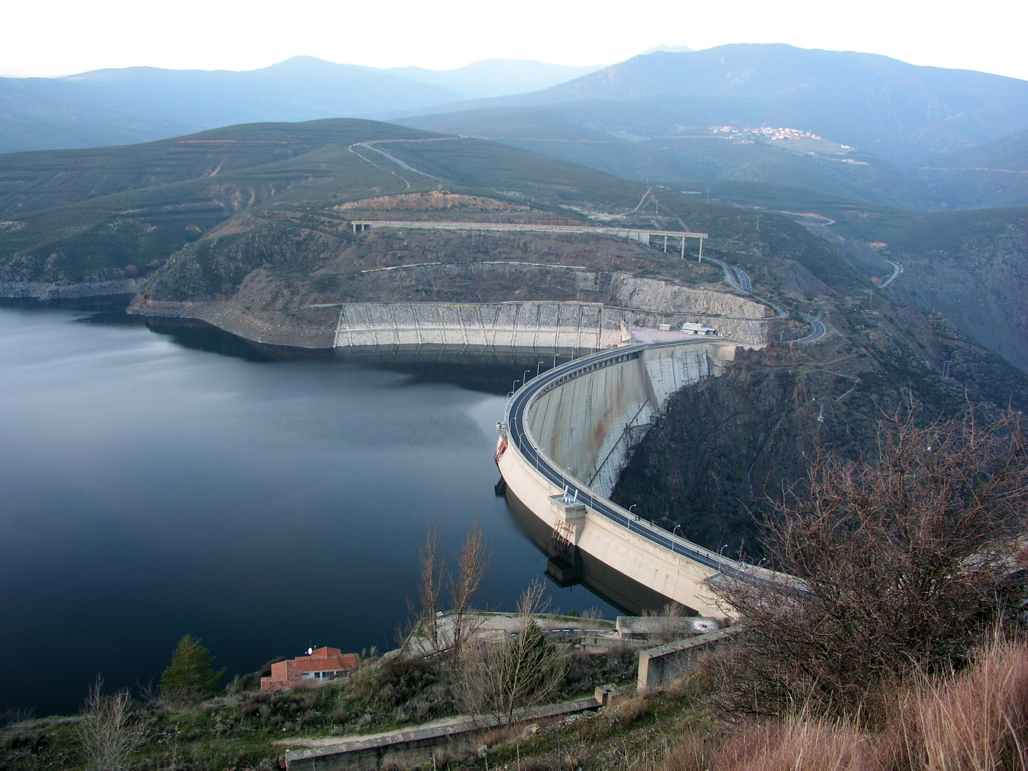 The Atazar Dam, Madrid, Spain